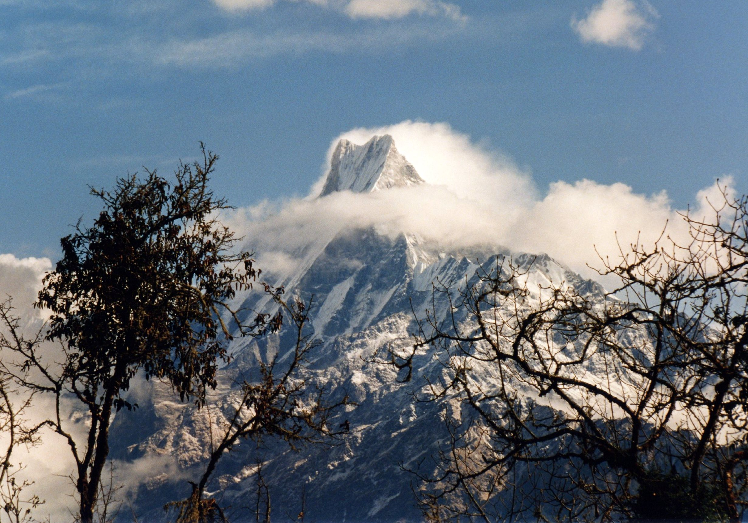 Machapuchare mountain viewed from Tadapani, Nepal